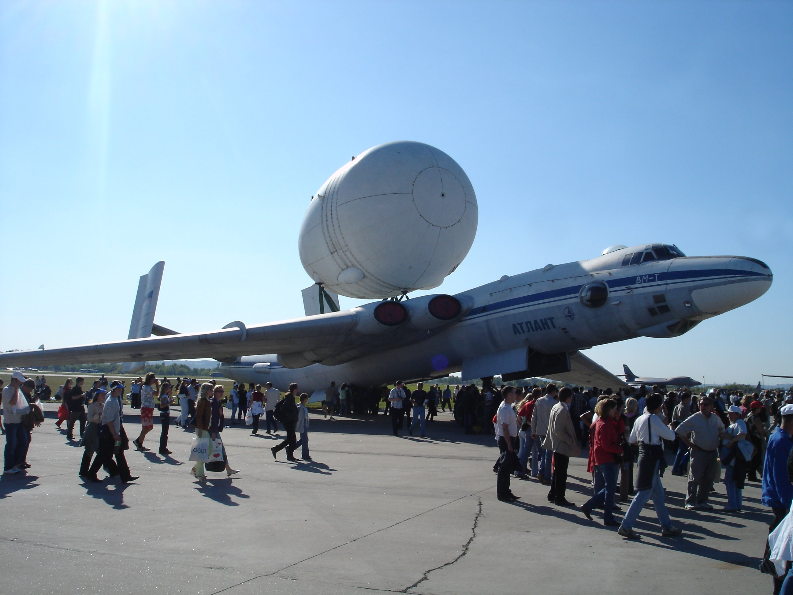 VM-T "Atlant" heavy freighter aircraft with 3GT cargo MAKS, Zhukovskiy, Russia, 2005.